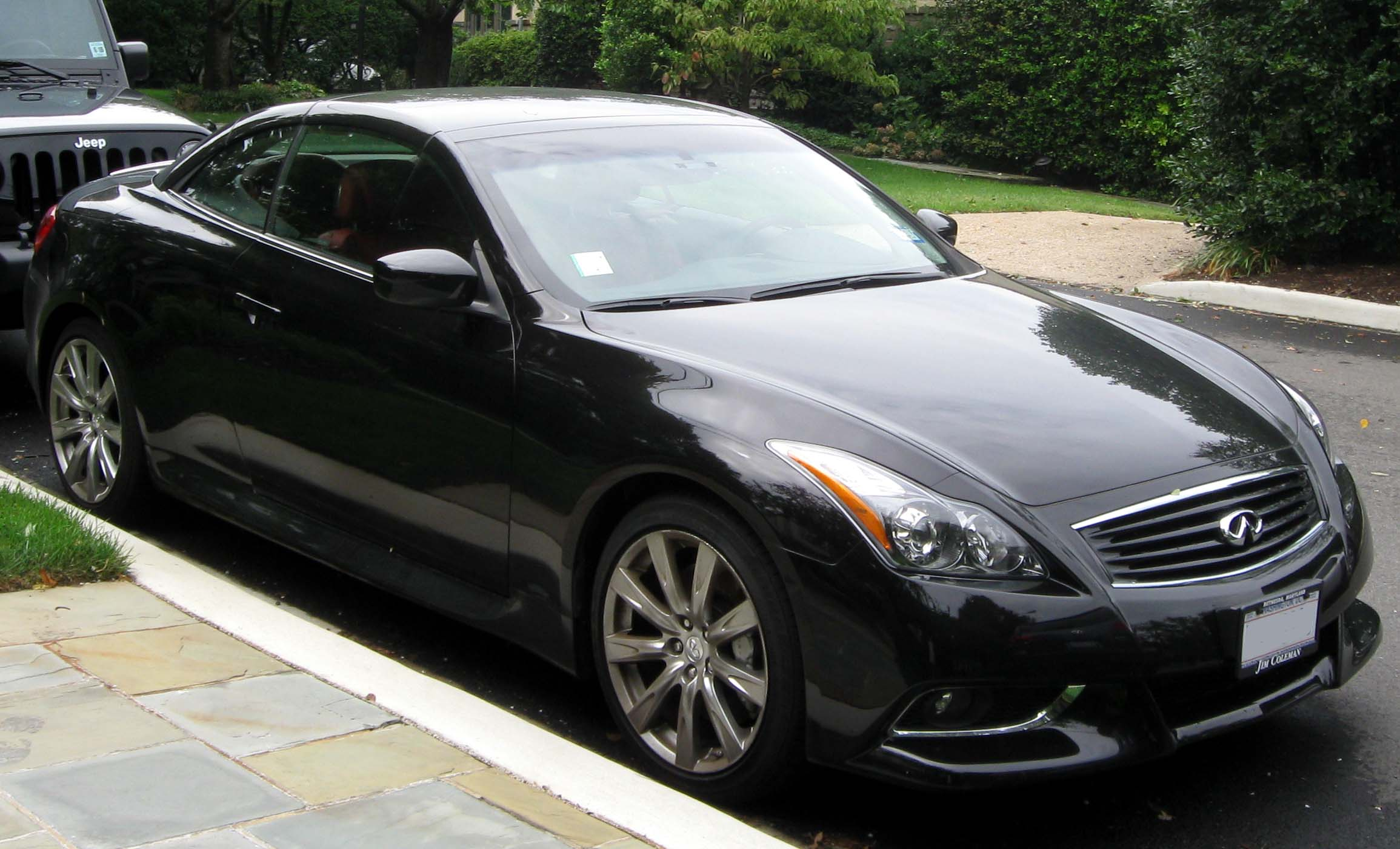 2011 Infiniti G37 photographed in Washington, D.C., USA.